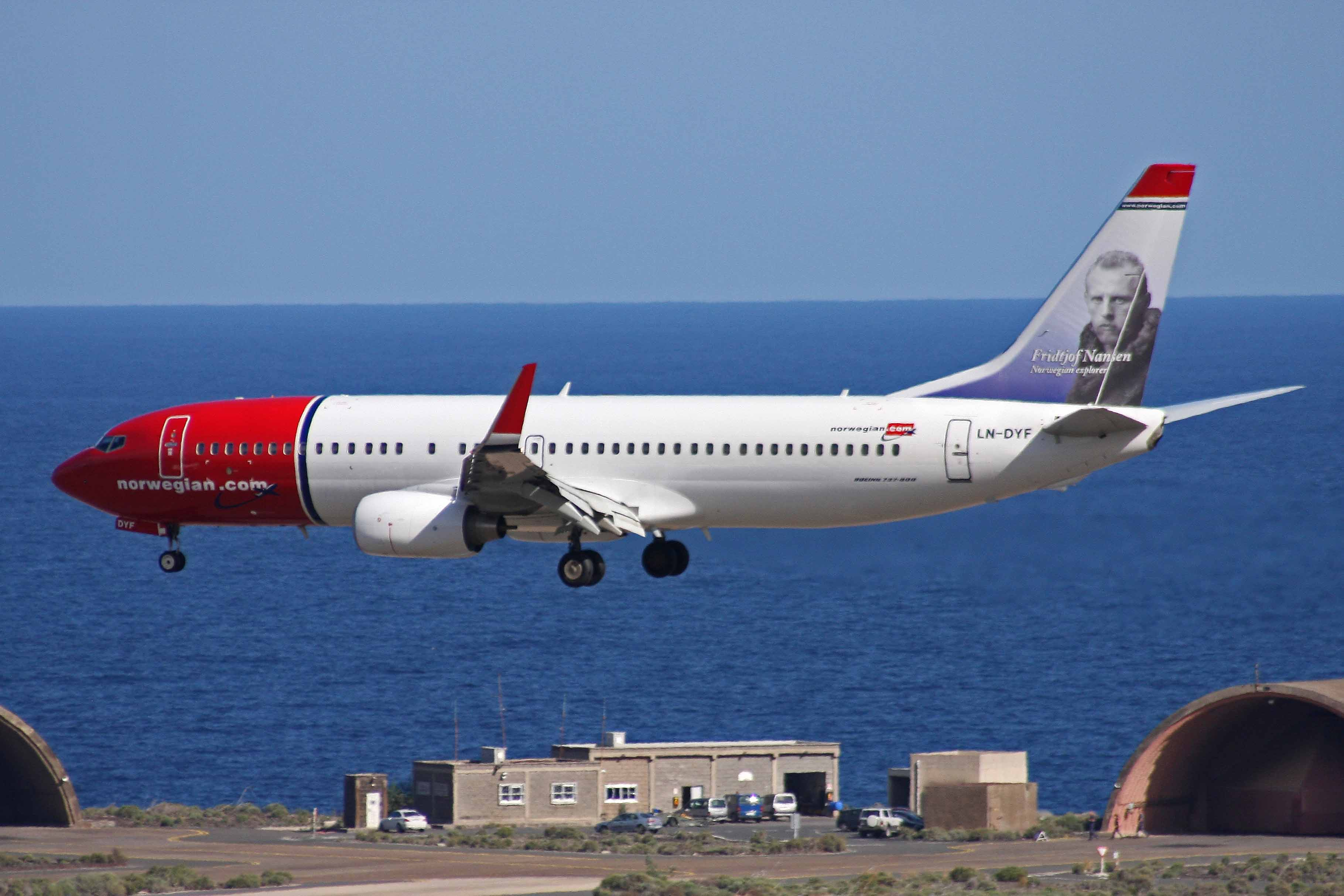 "Fridtjof Nansen, Norwegian Explorer" tail c/scheme